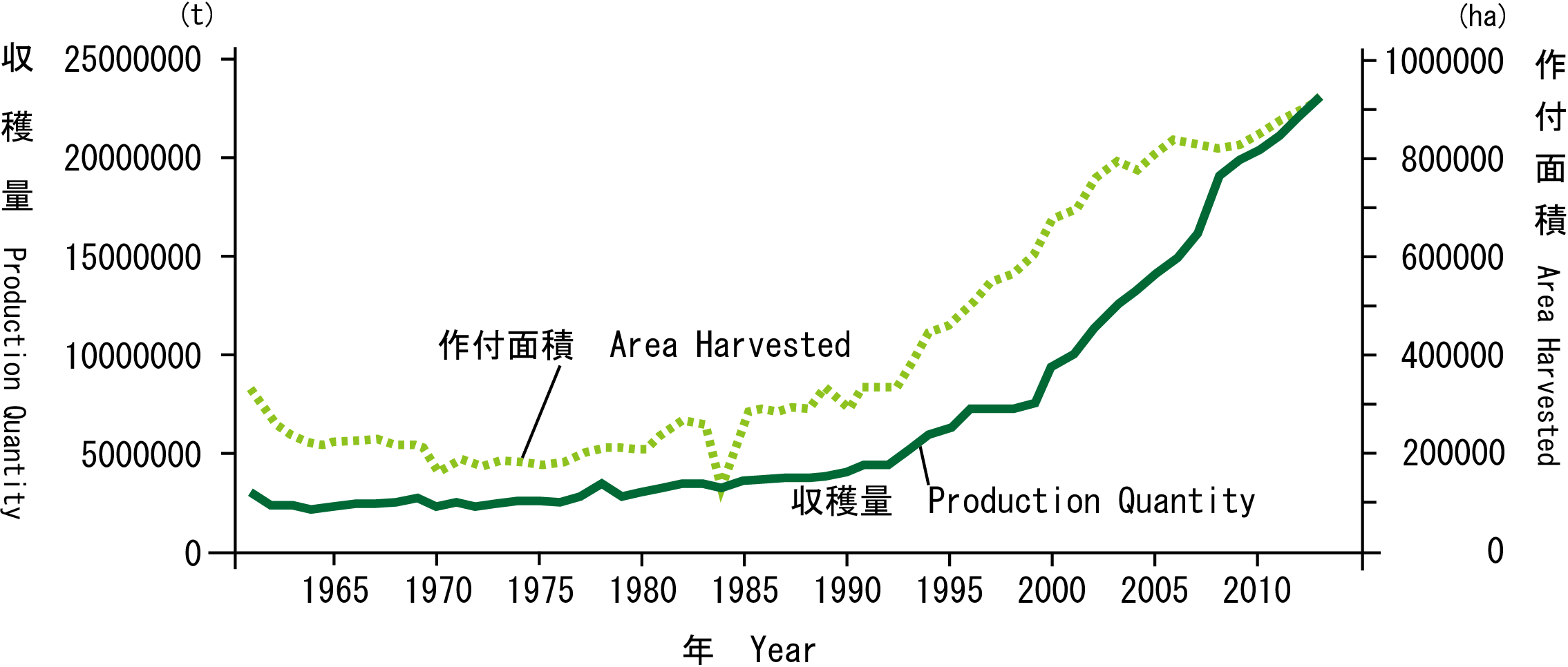 These graphs show production quantity and area harvested of spinach in the world from 1961 to 2013. Data source is FAOSTAT.